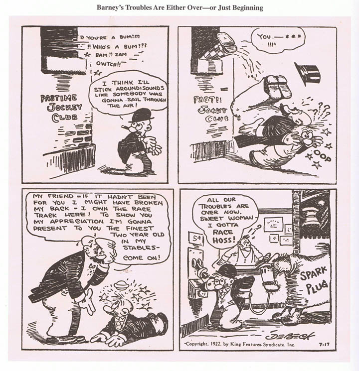 Barney Google comic strip by Billy DeBeck from 1922-07-17